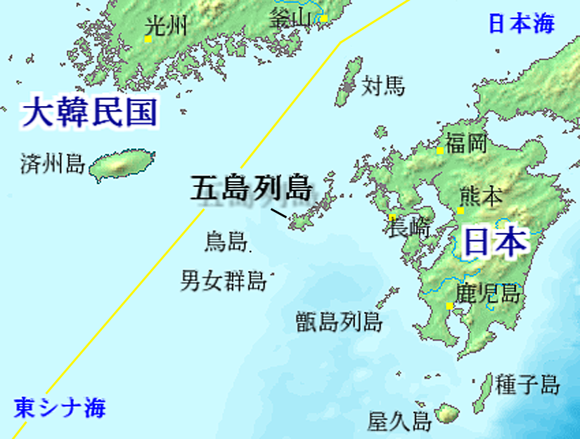 Goto Islands